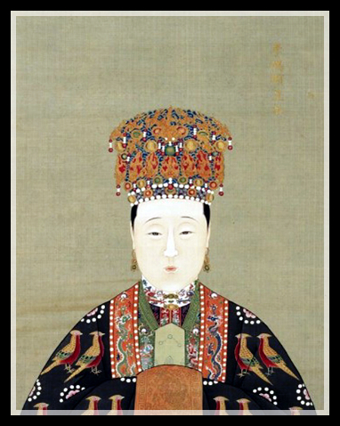 The Official Imperial Portrait of Ming Dynasty's Empress Xiaoduan